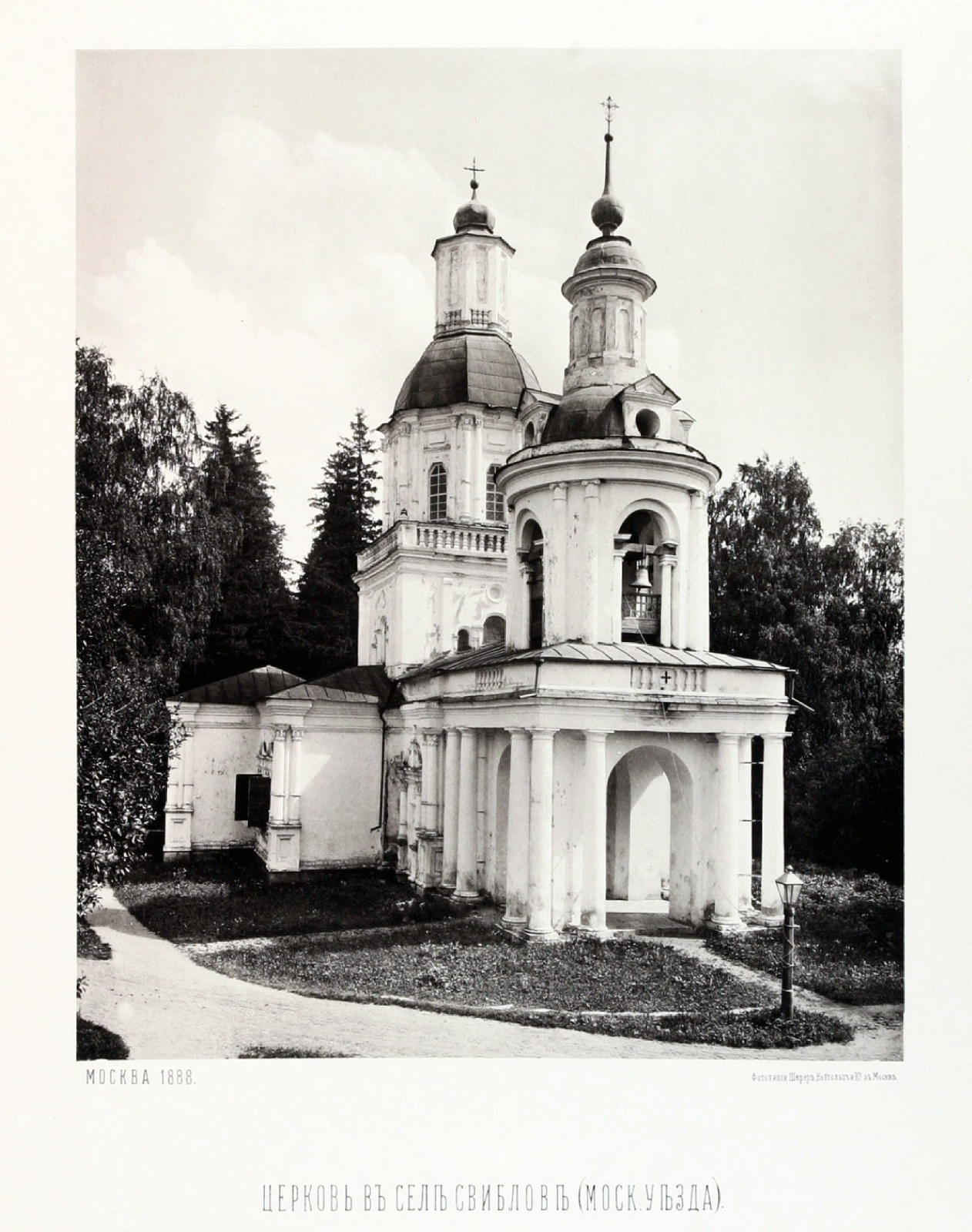 Plate 39: Church in Sviblovo.